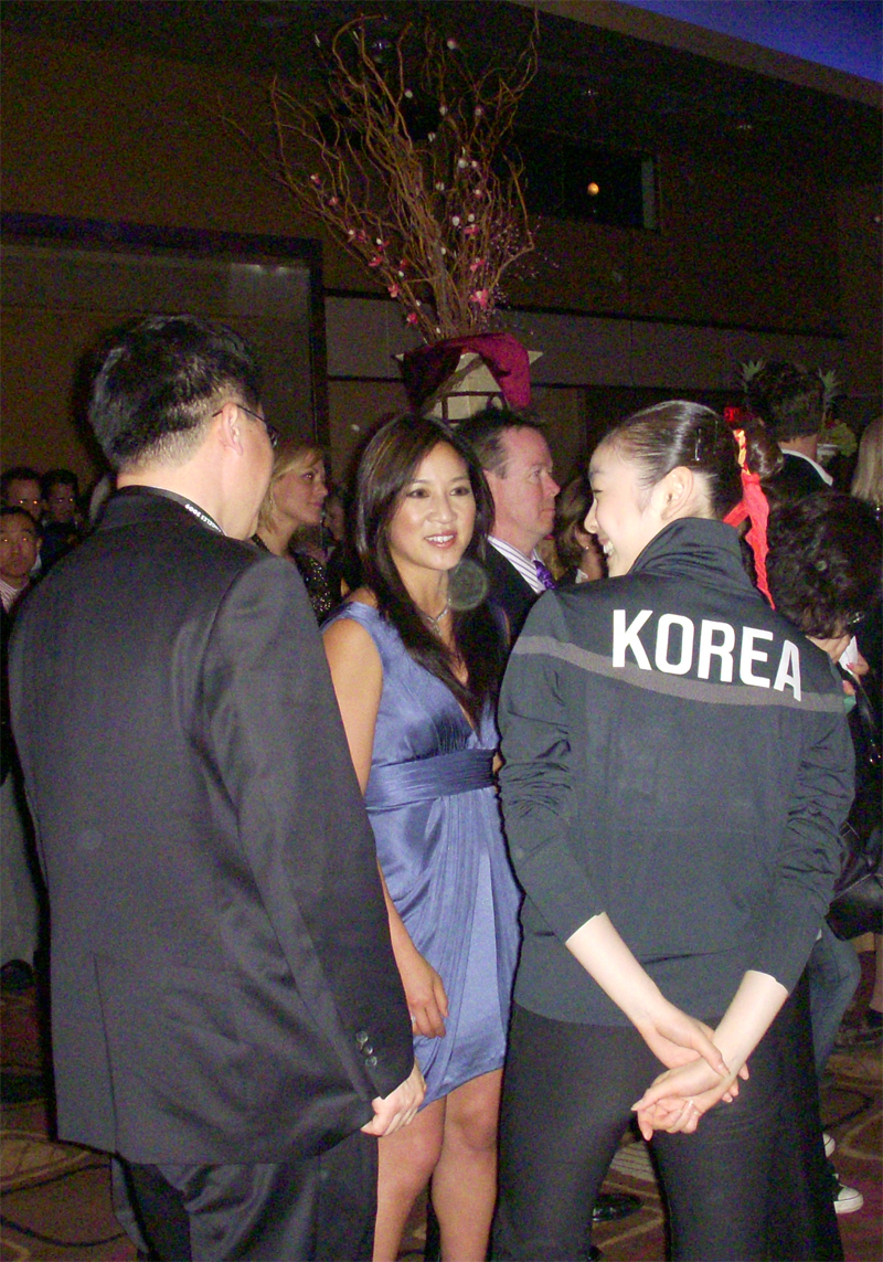 Michelle Kwan and Kim Yu-Na at the 2009 World Figure Skating Hall of Fame reception.